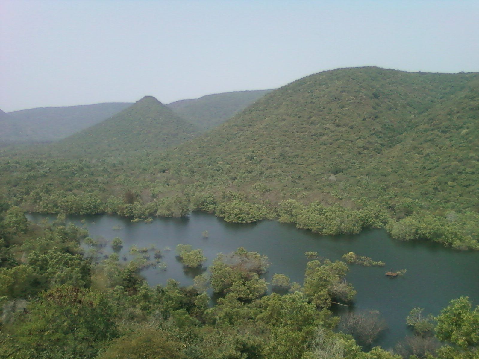 An Aerial view of kambhalakonda Eco Tourism Park Reserve in Visakhapatnam city in the midst of eastern ghats